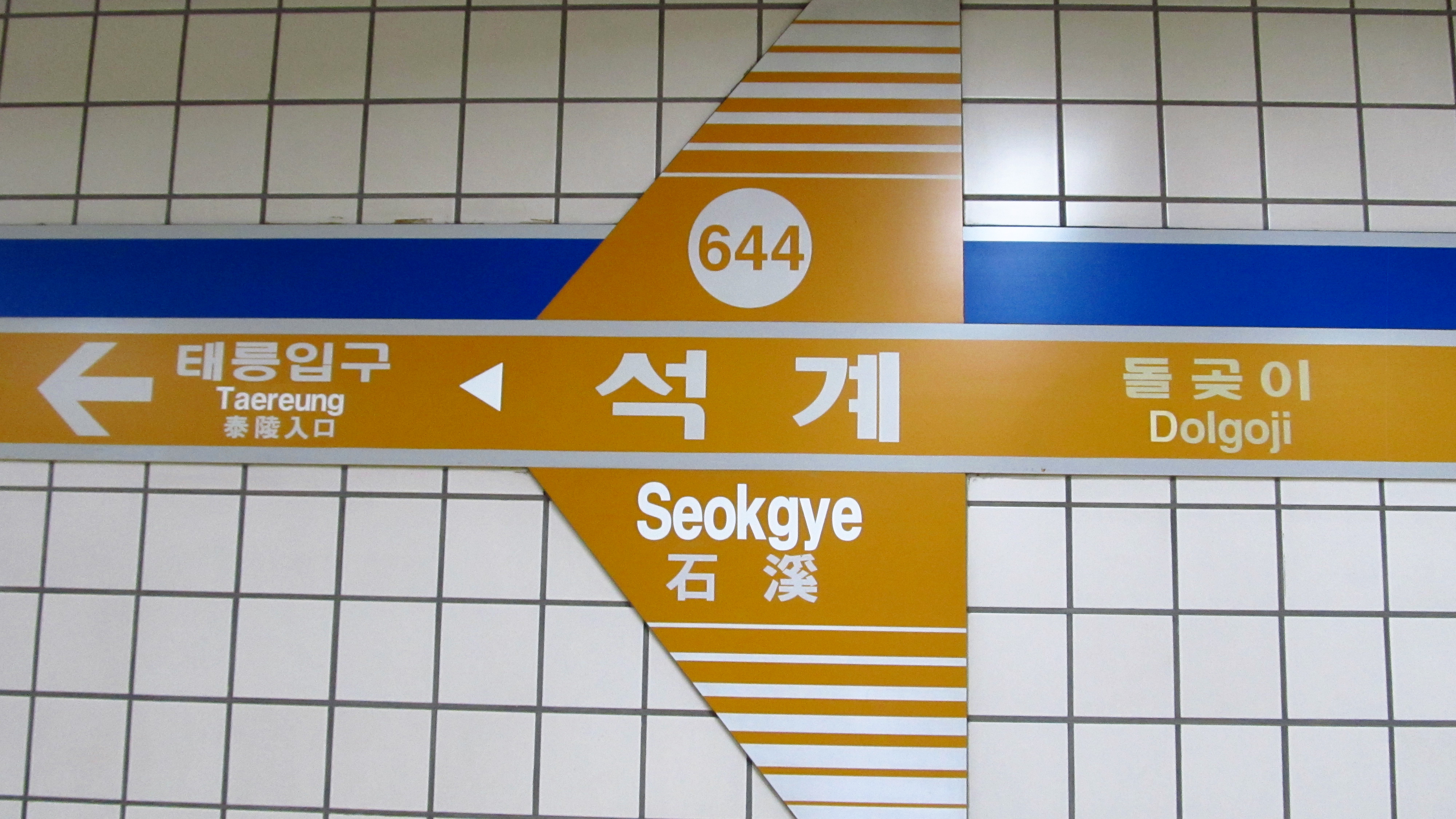 A sign of Seokgye Station on Seoul Subway Line 6